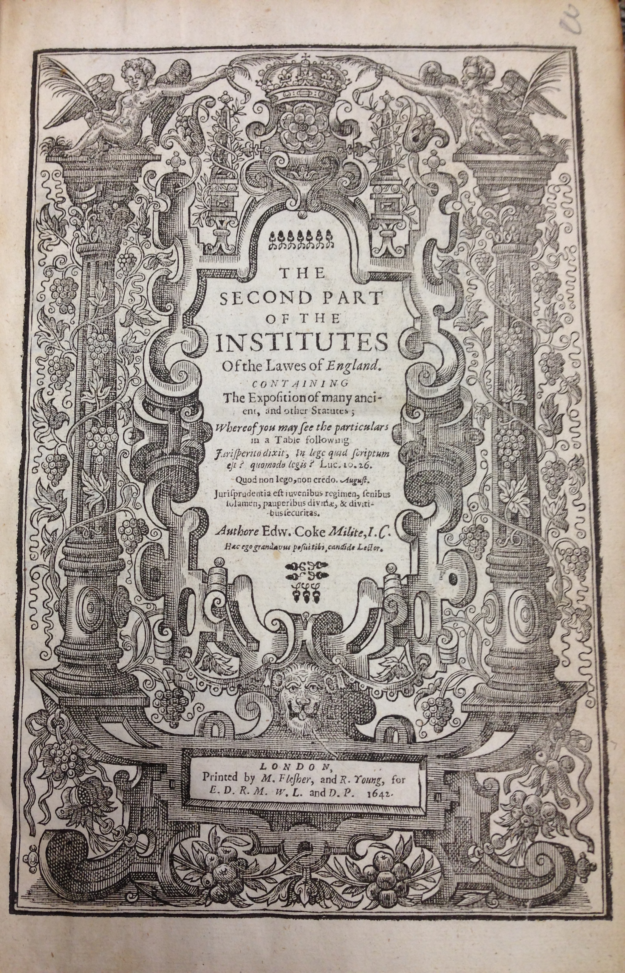 Title page of Edward Coke (1642) The Second Part of the Institutes of the Lawes of England. Containing the Exposition of Many Ancient, and other Statutes; whereof You may See the Particulars in a Table Following (1st ed.), London: Printed by M[iles] Flesher and R[obert] Young for E[phraim] D[awson], R[ichard] M[eighen], W[illiam] L[ee] and D[aniel] P[akeman] OCLC: 228722563. The text on the title page is as follows: "THE / SECOND PART / OF THE / INSTITUTES / Of the Lawes of England. / CONTAINING / The Expoſition of many anci- / ent, and other Statutes; / Whereof you may ſee the particulars / in a Table following "Juriſperito dixit, in lege quid ſcriptum / eſt? quomodo legis? Luc. 10.26. [To the expert in the law he [Jesus] said, "What is written in the Law? How do you read it?" Luke 10:26 (translation partly from the New International Version of the Bible)] "Quod non lego, non credo. August. [What I do not read, I do not believe. Augustine.] "Juriſprudentia eſt iuvenibus regimen, ſenibus / ſolamen, pauperibus divitiæ, & diviti- / bus ſecuritas. [Jurisprudence is a discipline for young men, and a solace for old; riches for the poor, and security for the rich.] "Authore Edw. Coke Milite, I.C. / Hac ego grandavus poſui tibi, candide Lector. [Author Edward Coke Knight, Iuris Consultus [Lawyer]. Hence I, who am very old, have put this before thee, innocent reader.] "LONDON, / Printed by M. Fleſher, and R. Young, for / E.D. R.M. W.L. and D.P. 1642."